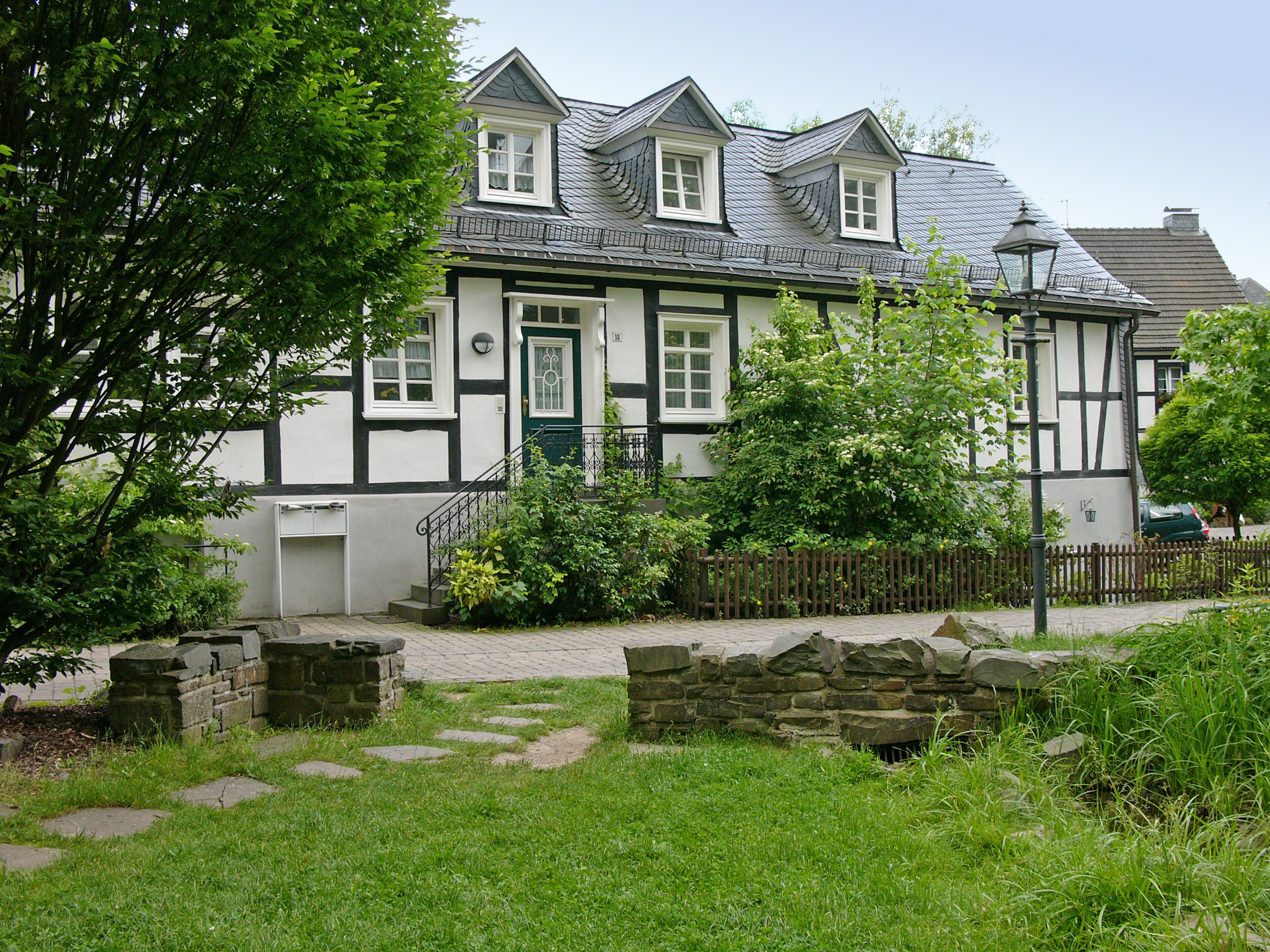 Tannery was once a major industry in Olpe. This is the last of the old houses where tanners lived and worked. It's next to the little stream called Olpebach.